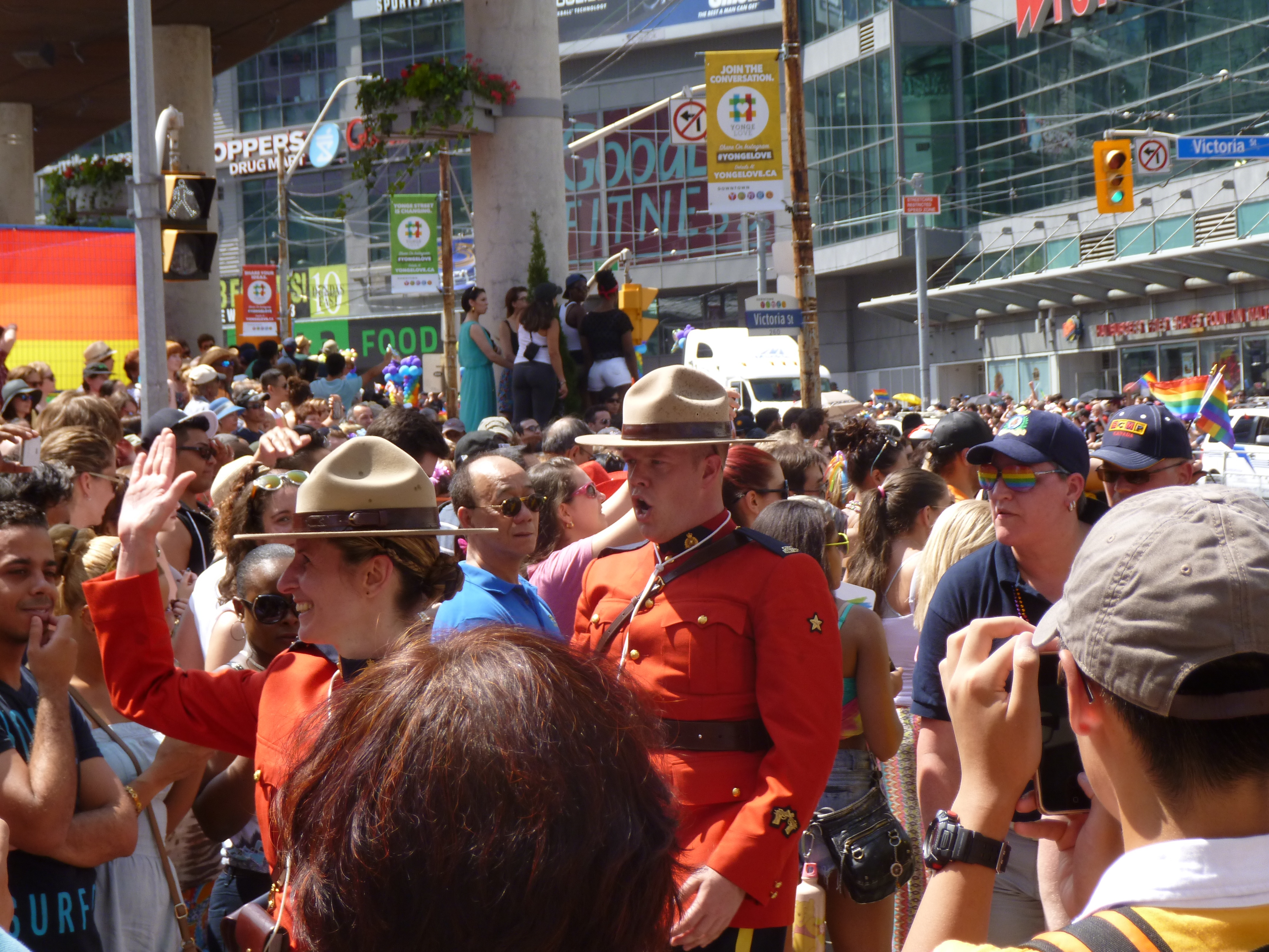 World Pride Parade 2014